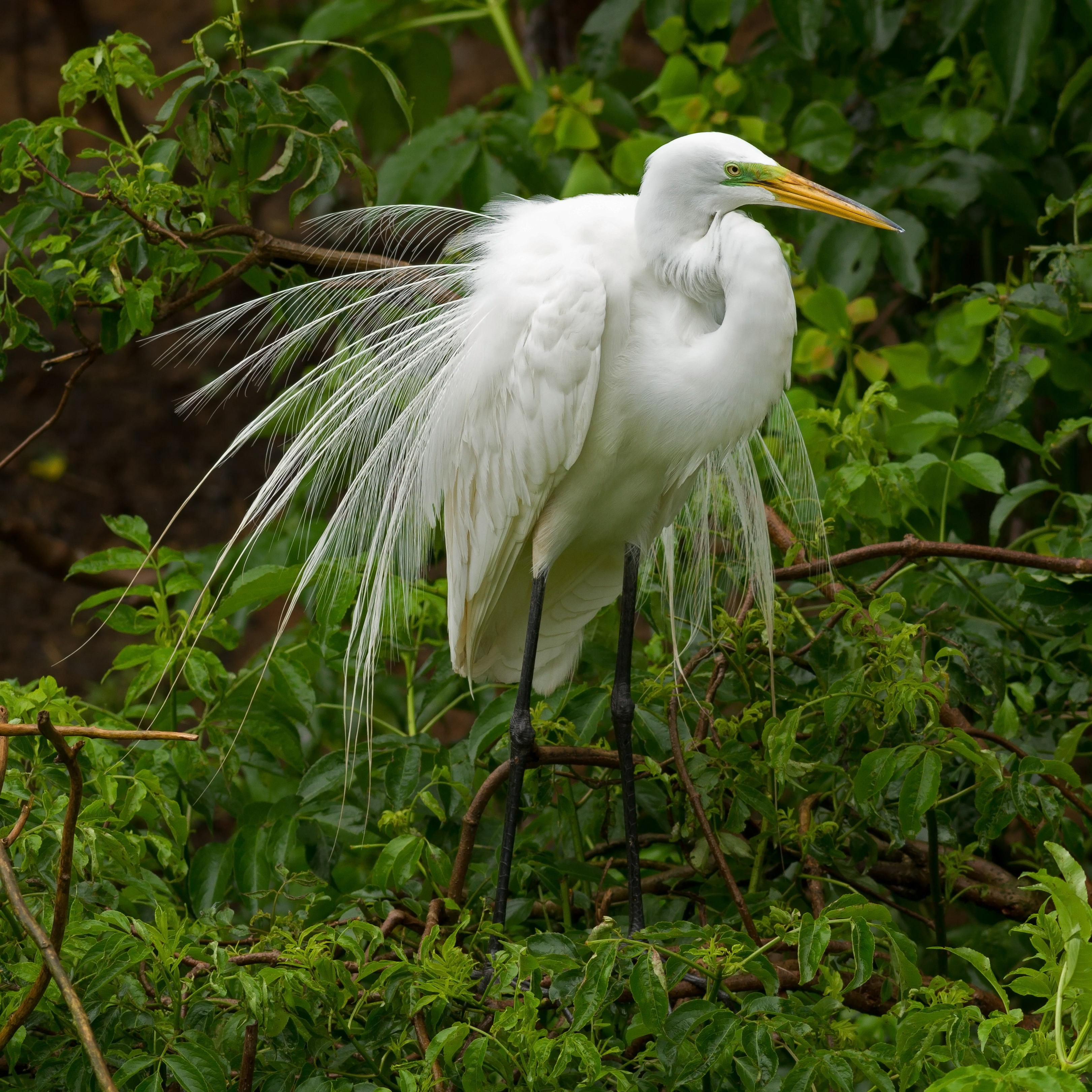 Great egret (Ardea alba) during mating season at Smith Oaks Sanctuary, High Island